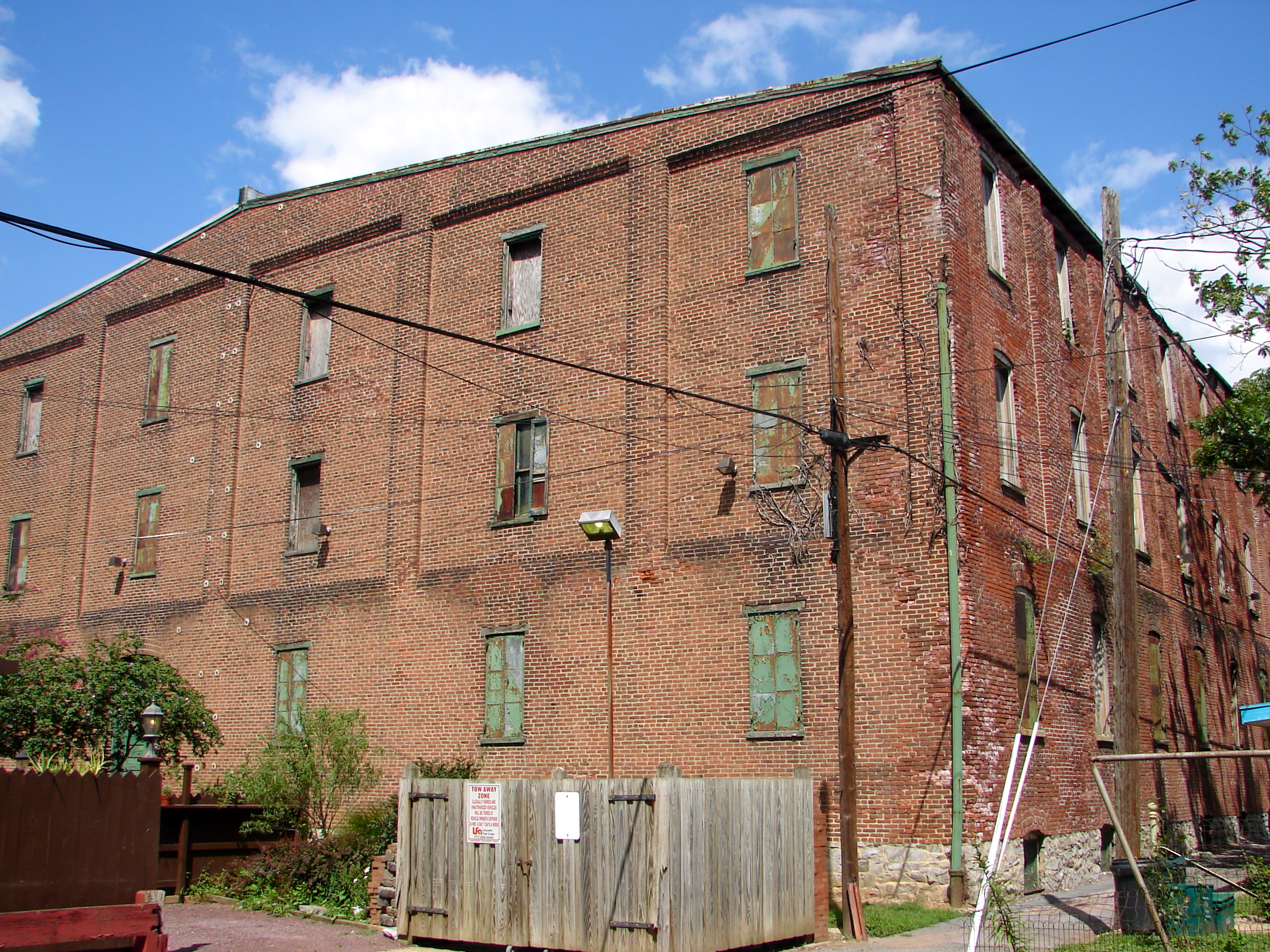 David H. Miller Tobacco Warehouse on the NRHP since September 21, 1990. At 512 North Market Street in the Stadium District of Lancaster, Pennsylvania. Part of the NRHP Multiple submission for building in the tobacco industry in Lancaster.